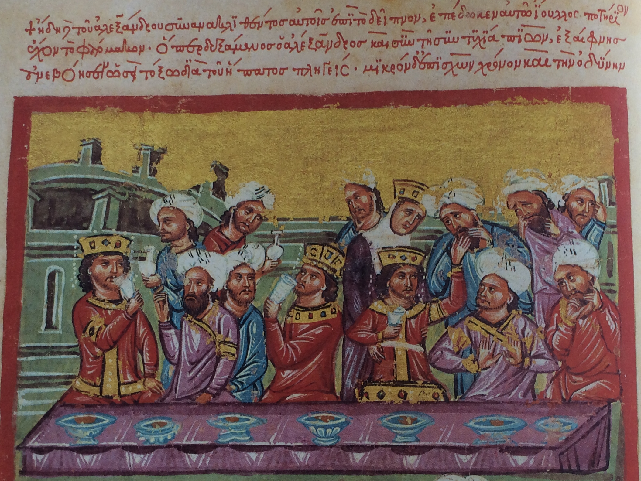 Alexander poisoned, Hellenic Institute codex 5 f. 189v top (Alexander Romance recension gamma)